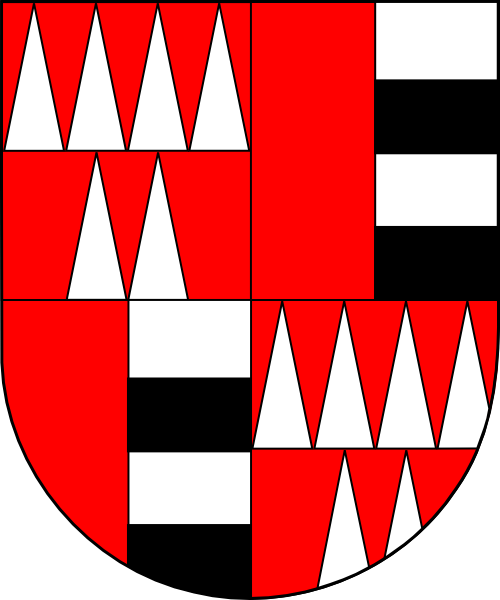 Coat of arms (shield only) of Vilém Prusinovský z Víckova, bishop of Olomouc, Czech Republic (1565 - 1572).